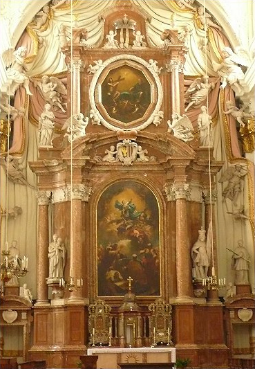 Linz, Alter Dom. Baroque main altar by Giovanni Battista Barbarino and Giovanni Battista Colombo (1681-83).